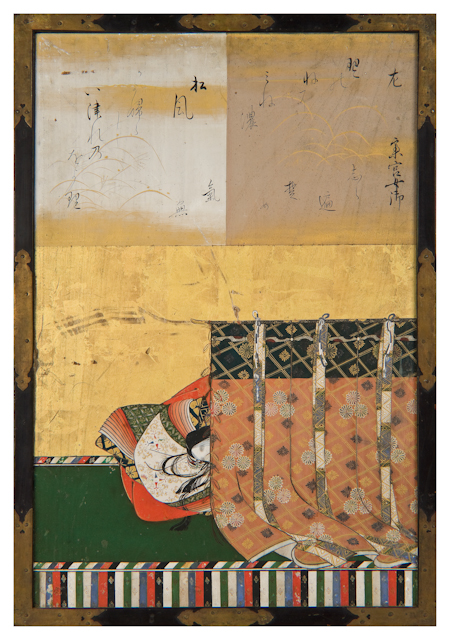 Sanjūrokkasen-gaku (Thirty-six Poetry Immortals framed picture) #16: Saigū no Nyōgo